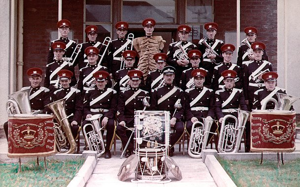 Marching band of Ayrshire (Earl of Carrick's Own) Yeomanry